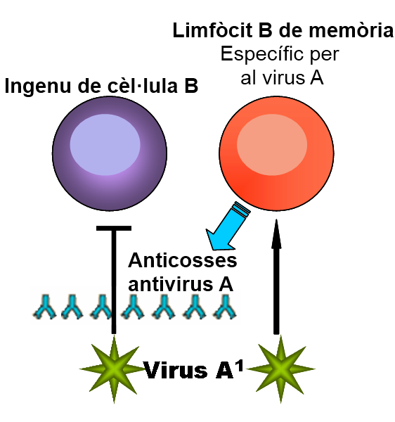 Original antigenic sin diagram in Catalan.